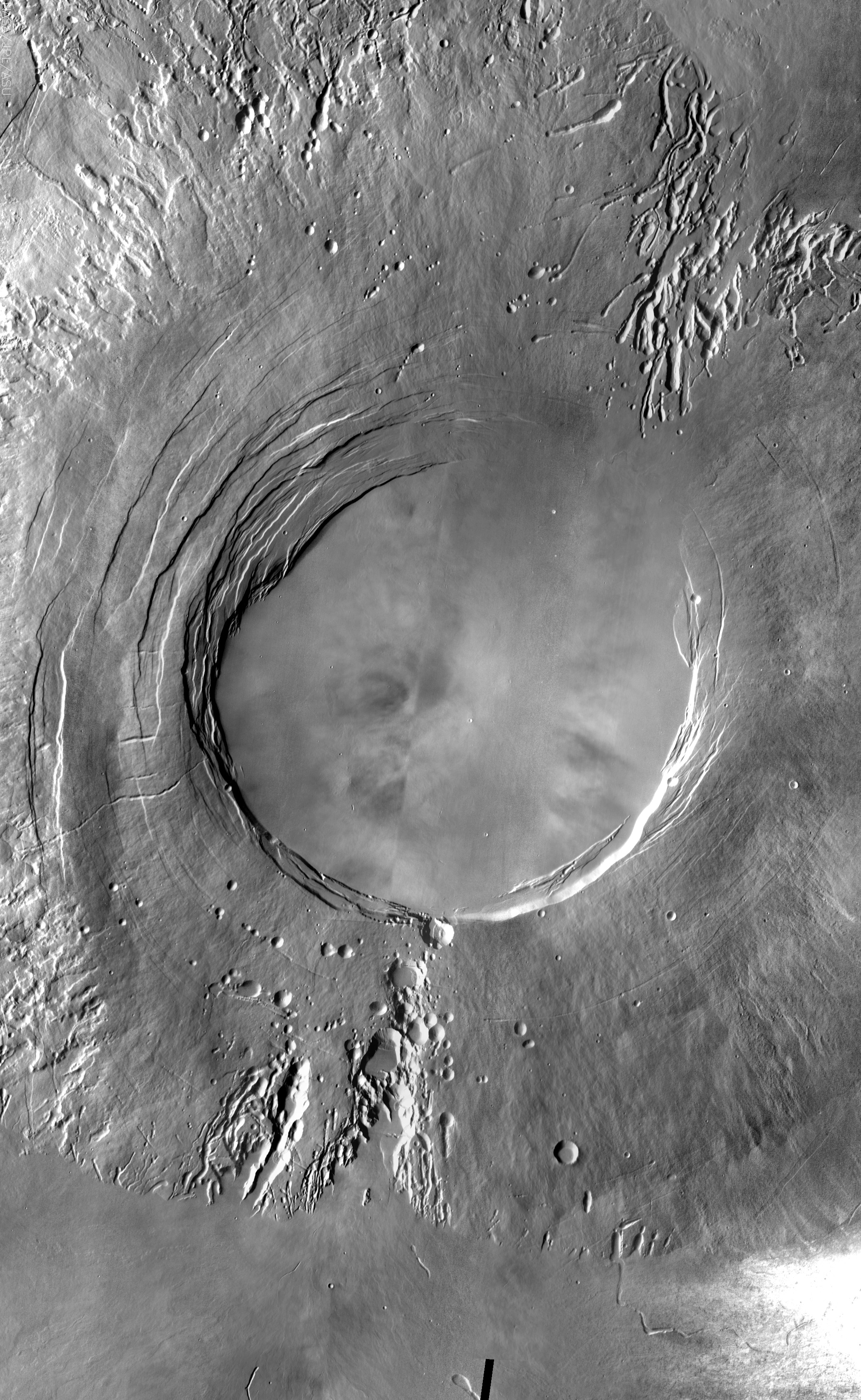 Arsia Mons is the southernmost of the Tharsis volcanoes. It is 270 miles in diameter, almost 12 miles high, and the summit caldera is 72 miles wide. For comparison, the largest volcano on Earth is Mauna Loa. From its base on the sea floor, Mauna Loa measures only 6.3 miles high and 75 miles in diameter. The image here is a mosaic of several daytime IR images. The indentations on the SW and NE sides align with the Pavonis Mons and Ascreaus Mons to the NE. This may indicate a large fracture/vent system was responsible for the eruptions that formed all three volcanoes.